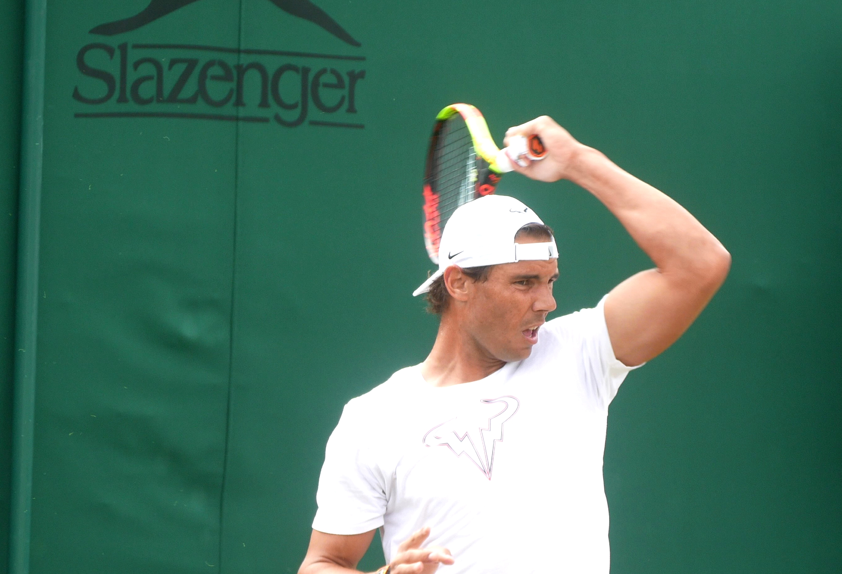 Rafa Nadal playing at Wimbledon July 2019